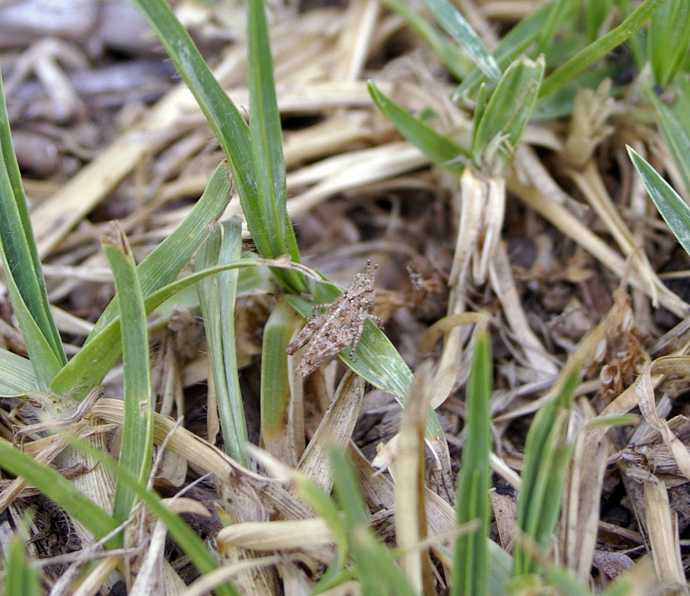 Chortoicetes terminifera (Australian plague locust) first stage nymph. Based on How to determine which growth stage a locust nymph is in by Department of Agriculture, Fisheries and Forestry.